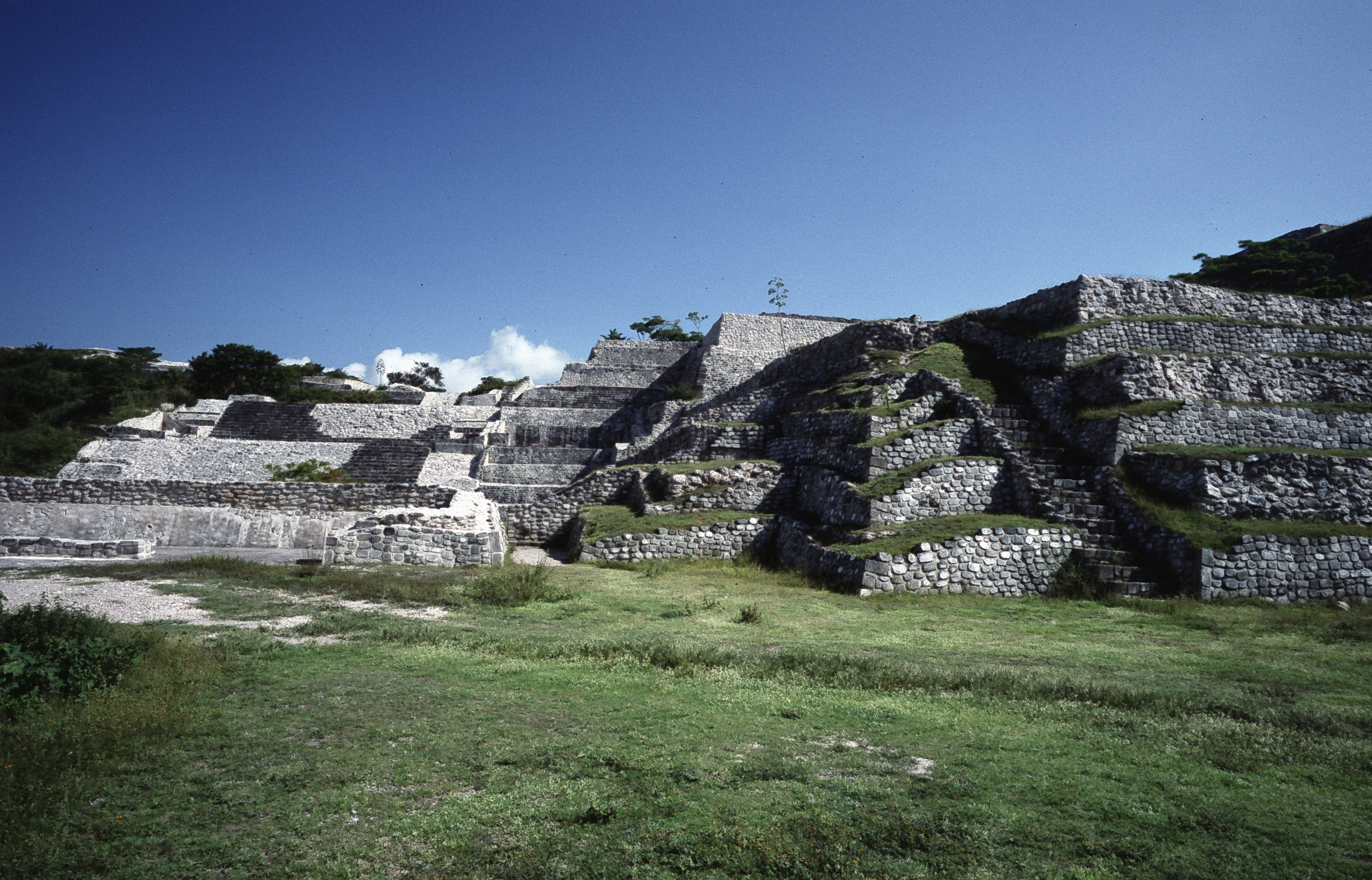 Xochicalco, Morelos, Mexico: southwest access